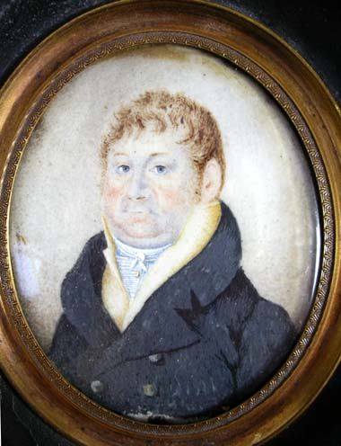 Roelof Wolter Herman baron Van Broeckhuysen, mayor of Harderwijk